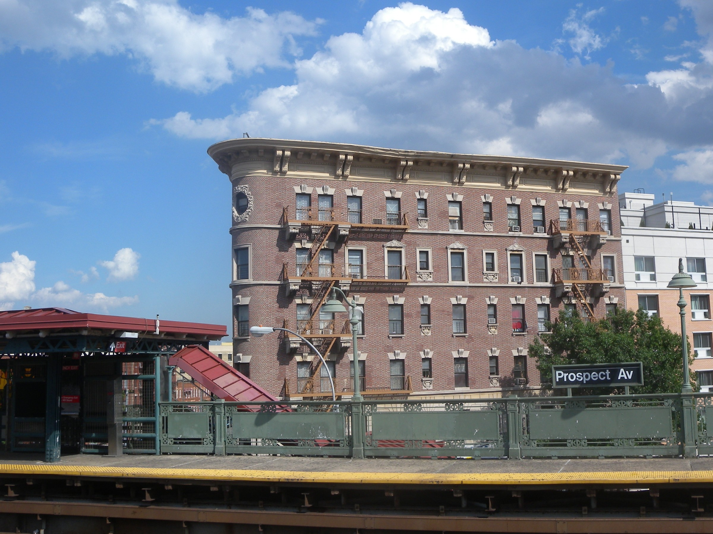 Looking east from southern part of southbound platform at Casa Amadeo in Longwood on a mostly sunny afternoon.